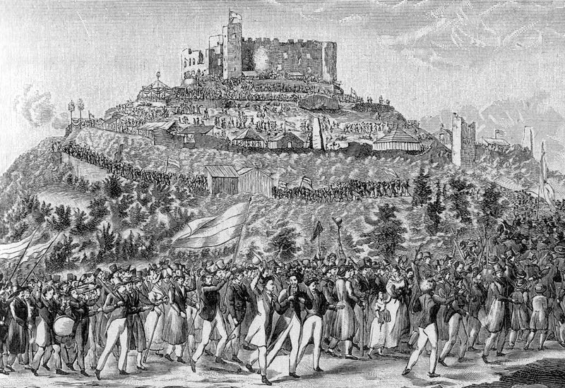 Hambacher Fest: Procession to Hambach Castle, with the future Flag of Germany upside-down